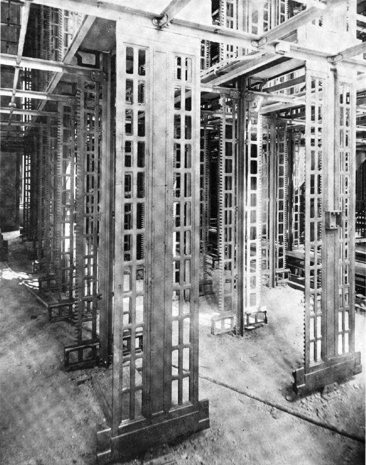 Widener Library under construction. "Construction view showing portion of fifth stack tier carried by girders over ground story reading room. The lower part of the shelf supports are extended into the aisles to carry wide fixed bottom shelves."